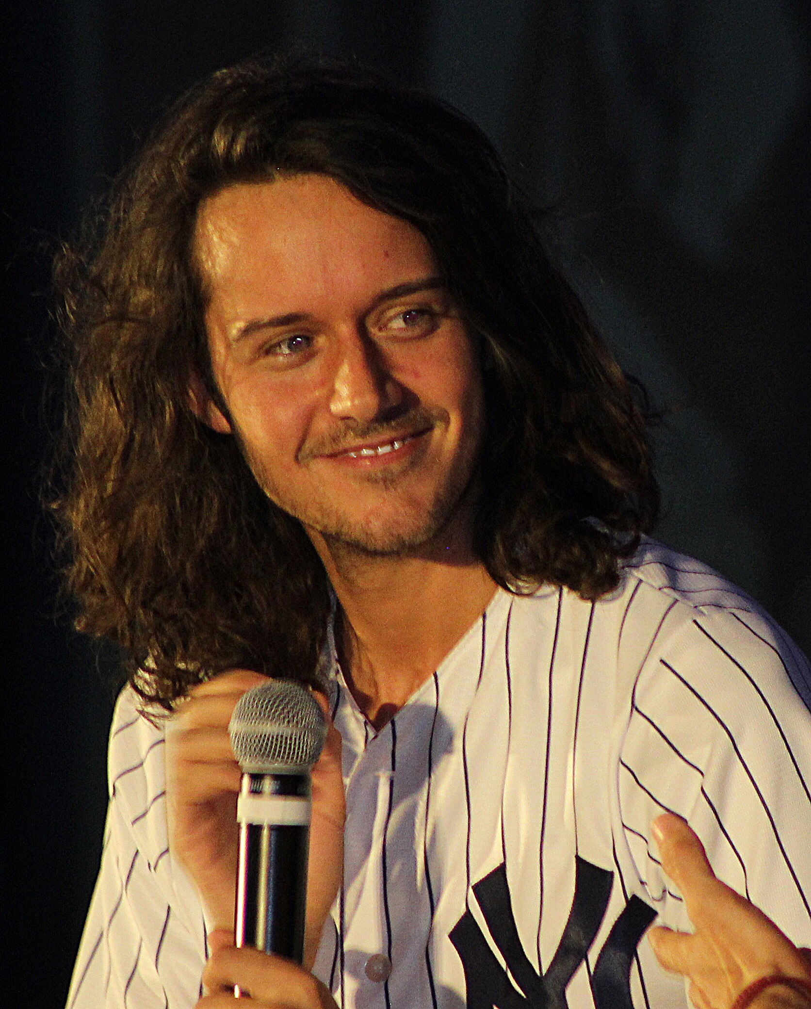 Cesar Domboy at the 2018 Creation Outlander Convention Las Vegas, Nevada (USA).